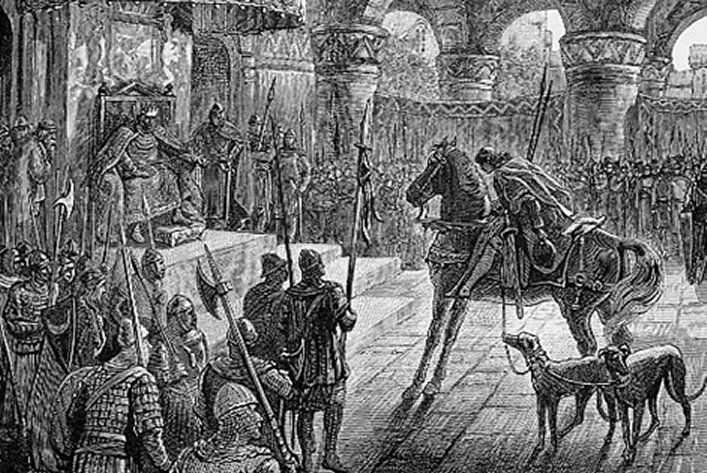 Culhwch entering King Arthur's court. Created by Alfred Fredericks and published as an illustration to The Boy's Mabinogion: being the earliest Welsh tales of King Arthur in the famous Red Book of Hergest, edited with an introduction by Sidney Lanier (New York: Charles Scribner's Sons, 1881) Taken from this work via